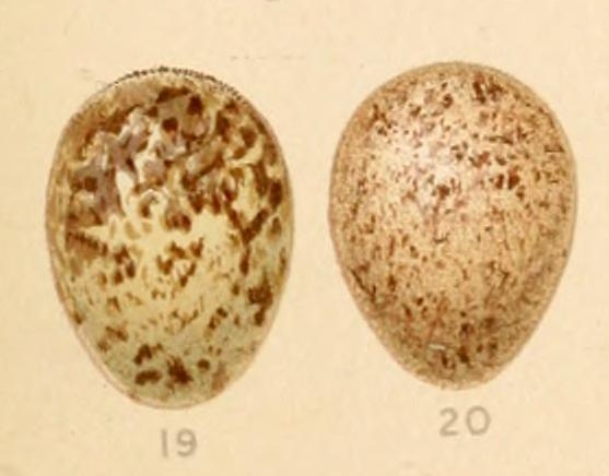 Eggs of Ammomanes phoenicura.